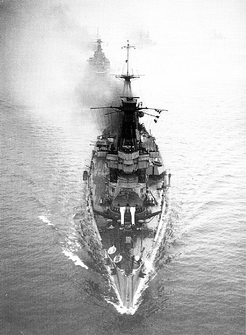 AWM Caption: HMAS Australia passing under the Forth Bridge in Scotland. While serving with the Royal Navy's Grand Fleet from February 1915 until the end of the First World War, she was flagship of the 2nd Battle Cruiser Squadron, which was based nearby at Rosyth. Object Type: Black & white - Glass original half plate negative